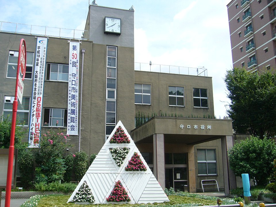 City Office of Moriguchi, Japan